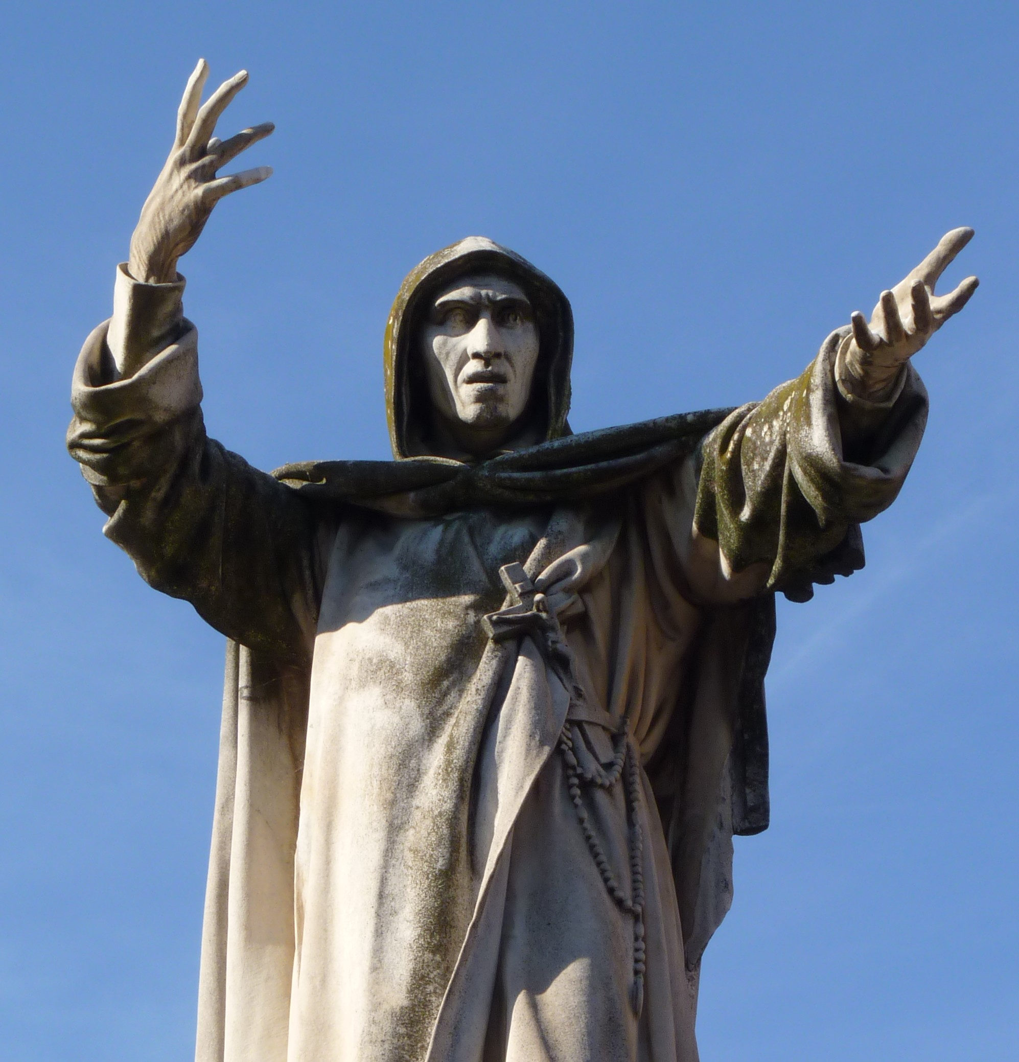 Girolamo Savonarola's statue in Bologna